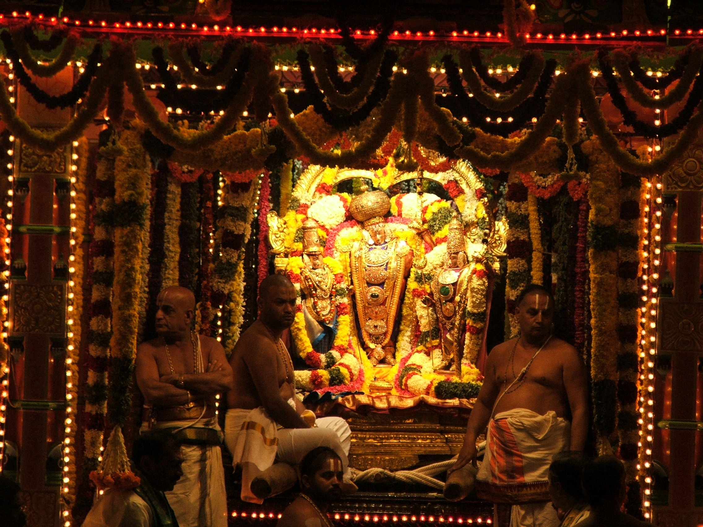 Description: Lord Rama along with his wife Sita and brother Lakshmana during the annual Teppotsavam festival